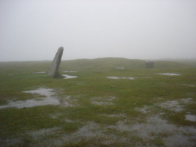 Blaenau Stone Circle. Driving over the Gospel Bass, below Hay's Bluff you pass this stump of what was only revealed in 1970 to be a stone circle.